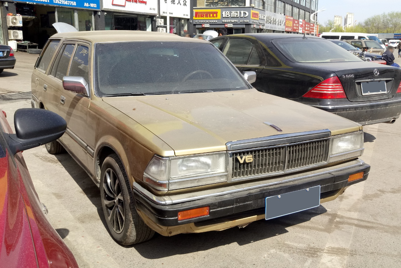 Yunbao YB6470 photographed in Beijing, China.